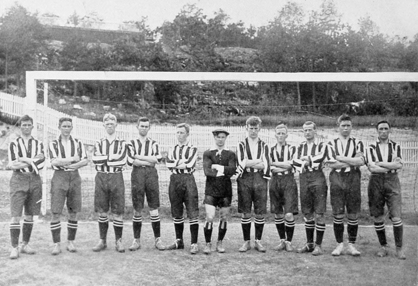 The Norway national football team at the 1912 Summer Olympics.